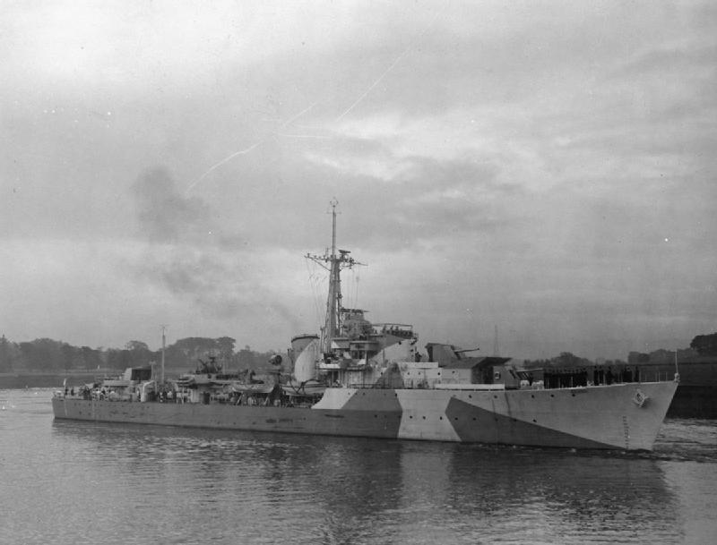 Photograph of British C class destroyer HMS Caesar, on completion.